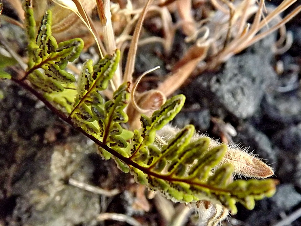 Cheilanthes guanchica, La Palma (Spain). Details of sori.